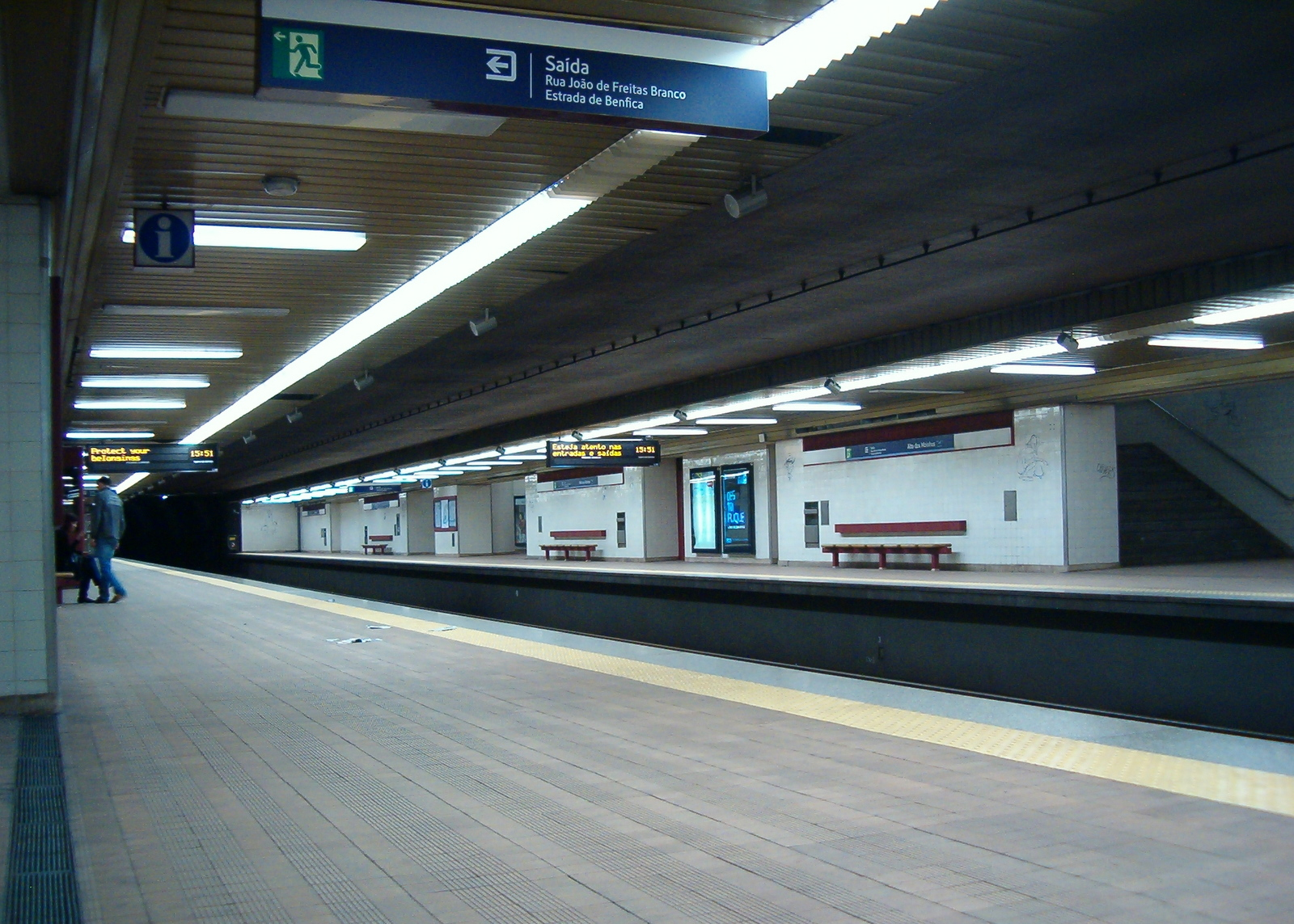 Metro station Alto dos Moinhos (Lisboa)